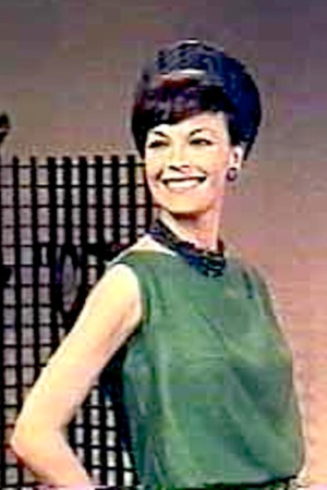 The Italian actress - presenter Renée Longarini while filming an advertising in 1960